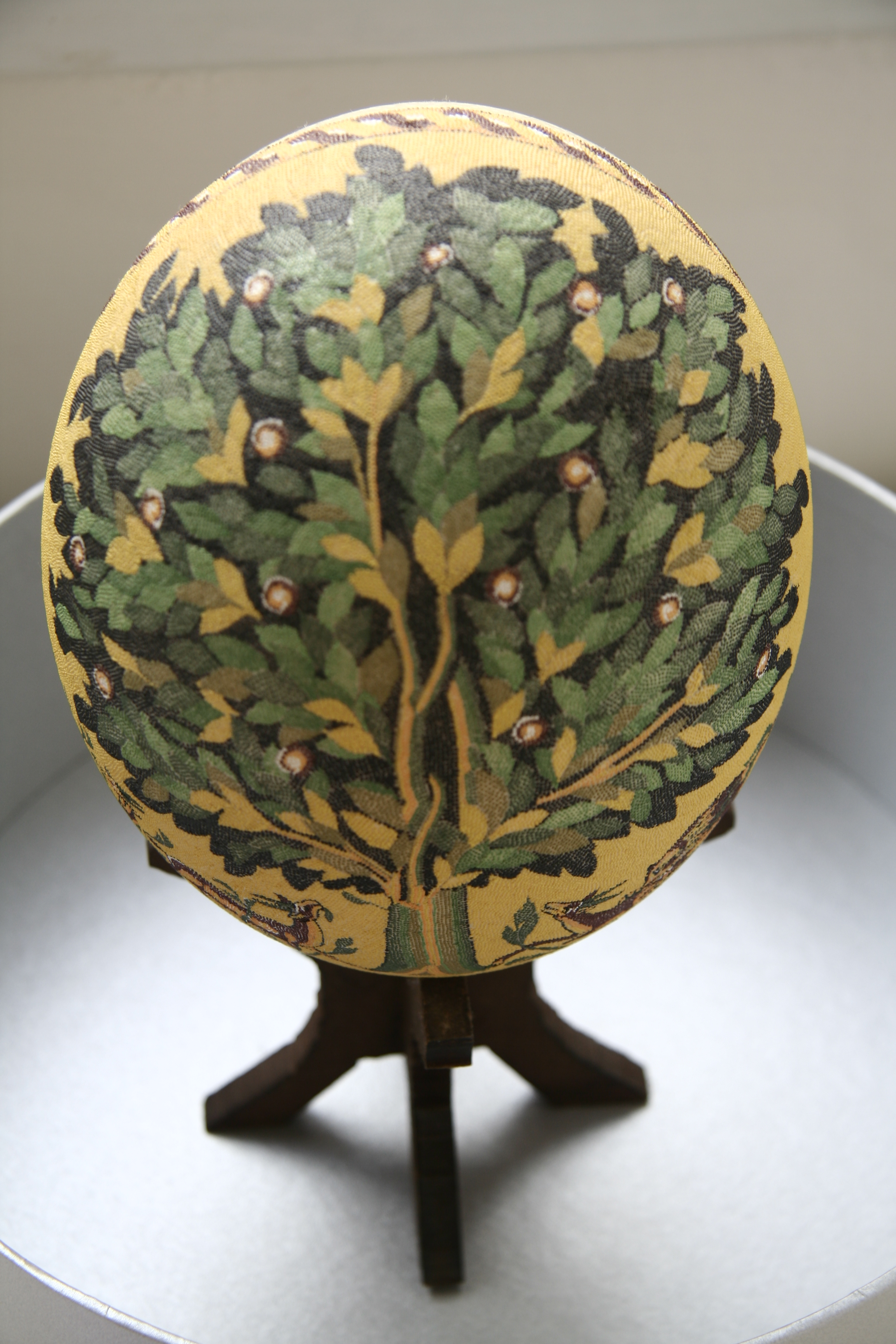 ornamented with needle ostrich egg bought in Jordan in 2009